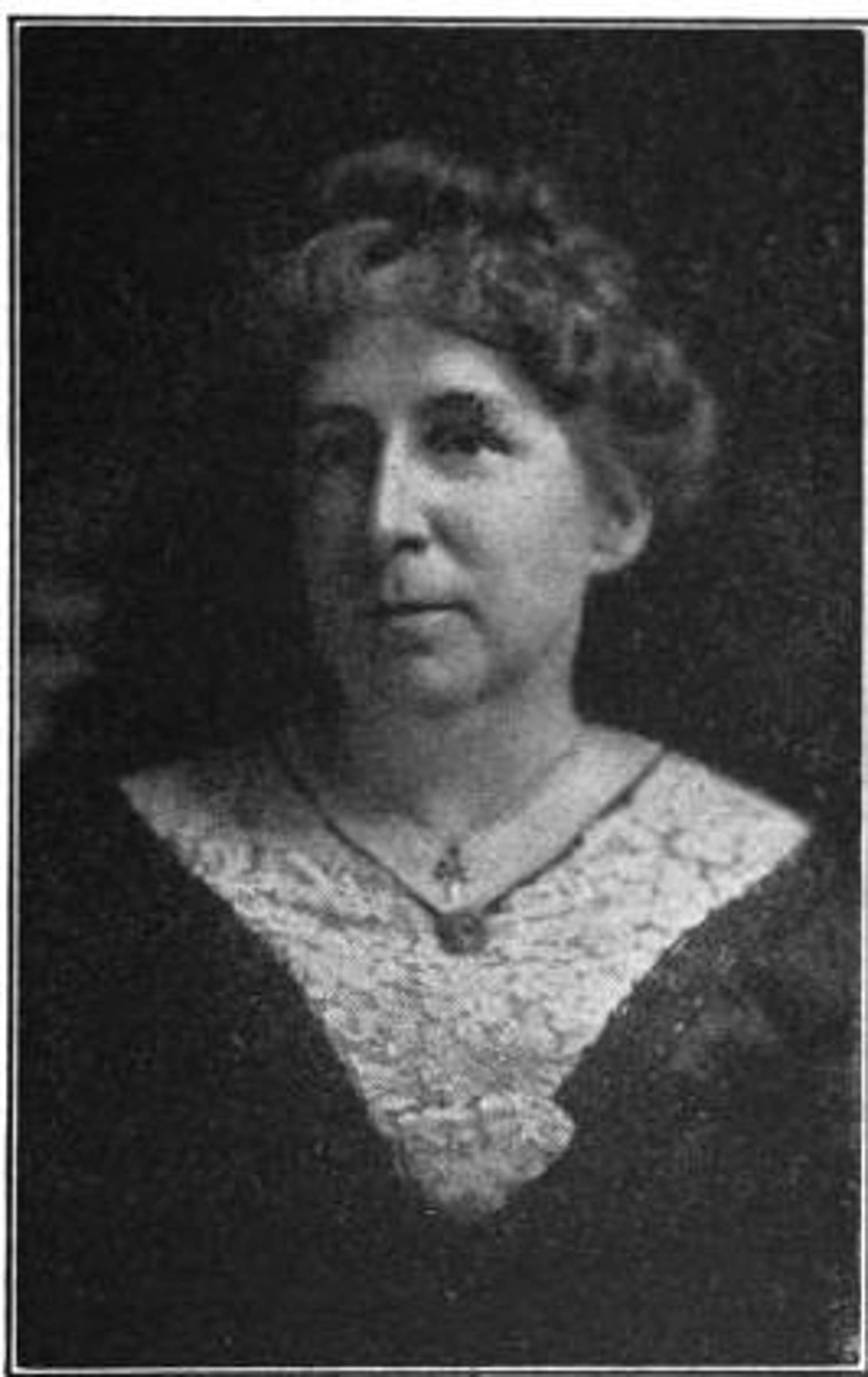 Wilbur Patterson Thirkield, born on September 25, 1854 in Franklin, Ohio was a Methodist bishop. This was his wife, Mary Haven Thirkield.